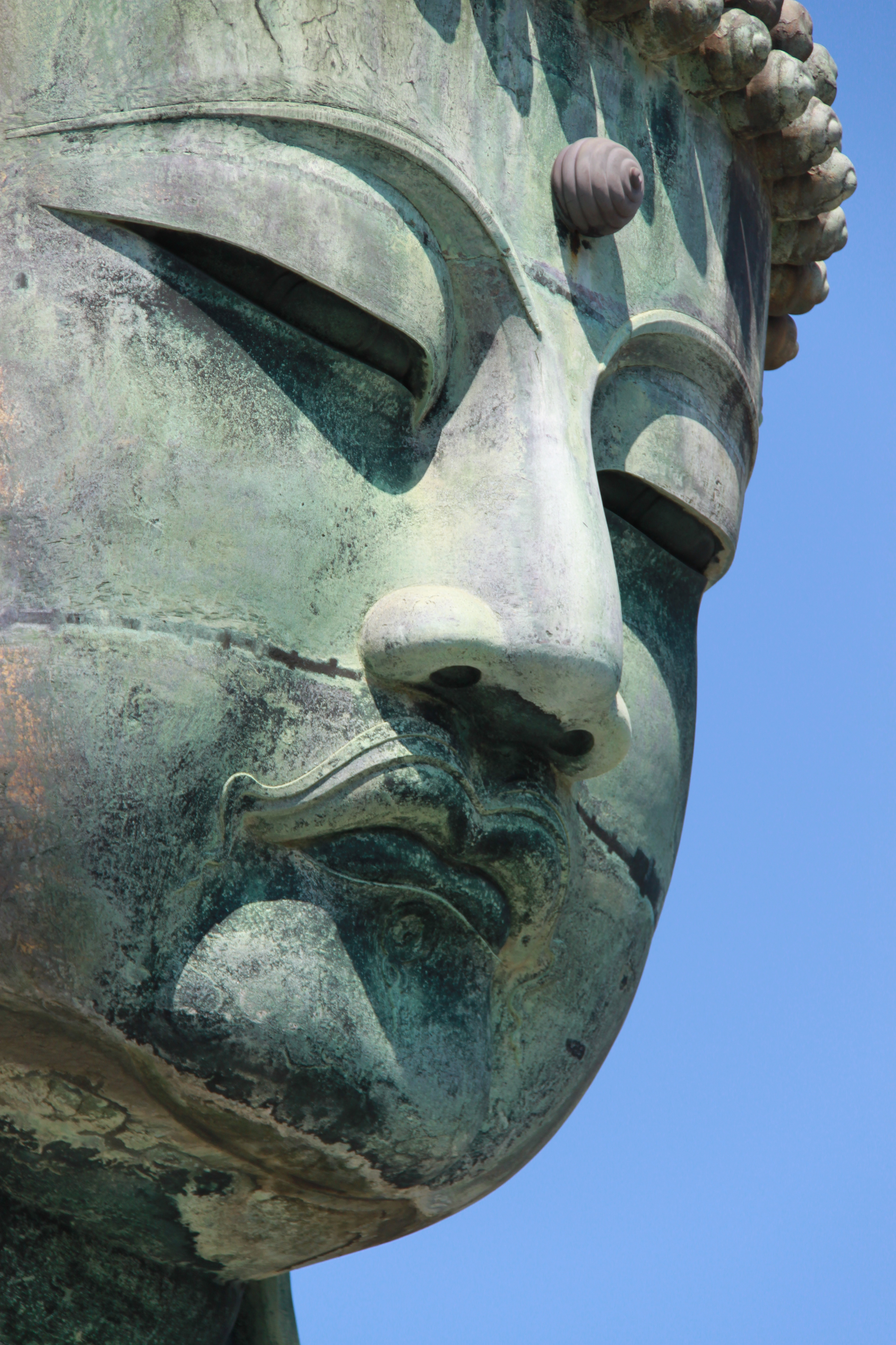 Face closeup of Buddha at Kamakura.